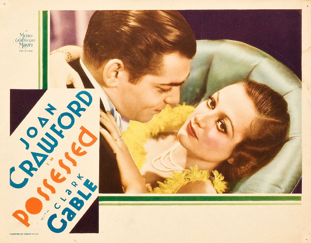 Lobby card for the 1931 film Possessed.